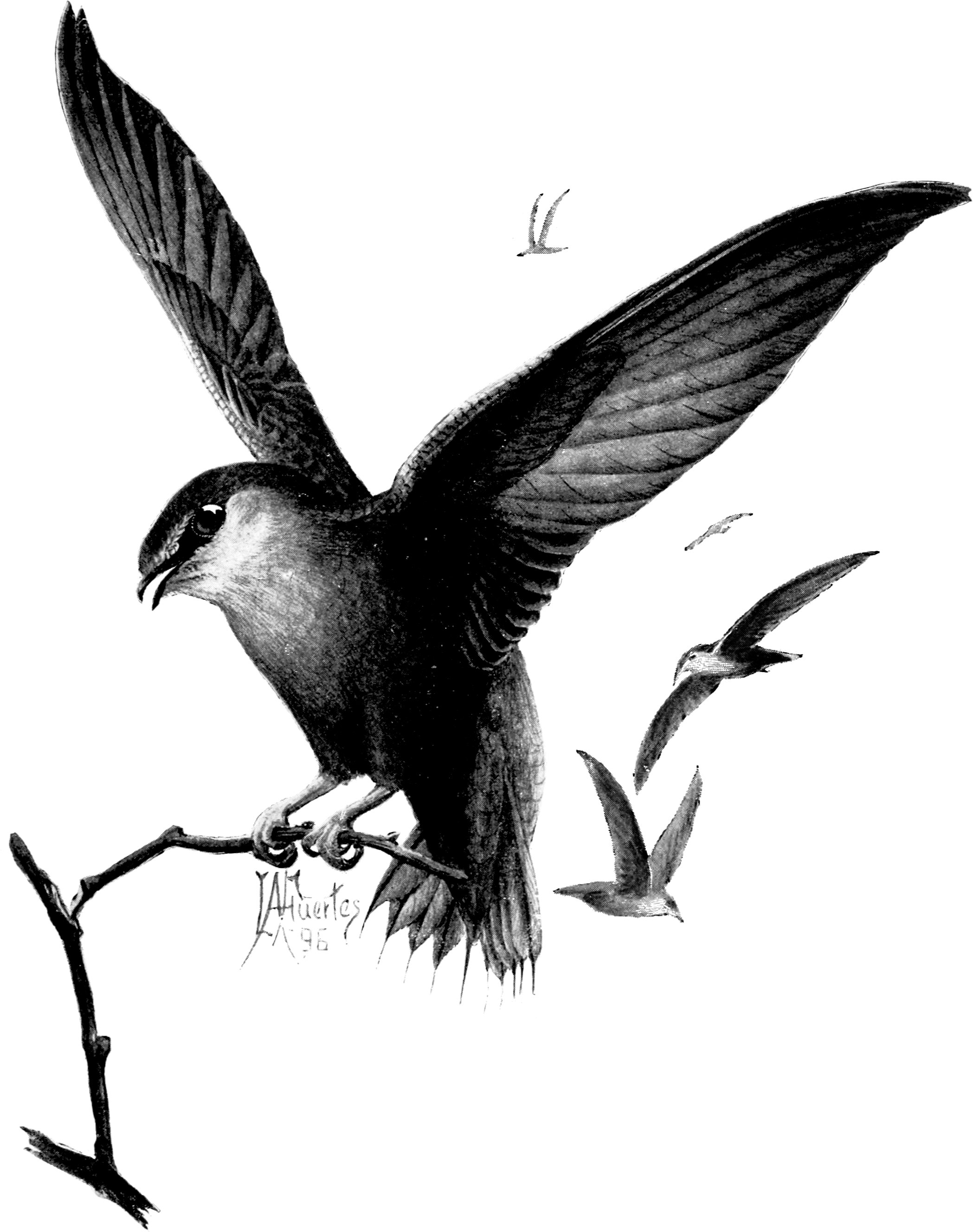 Chimney Swift Plate No. 45, from Birdcraft: a field book of two hundred song, game, and water birds